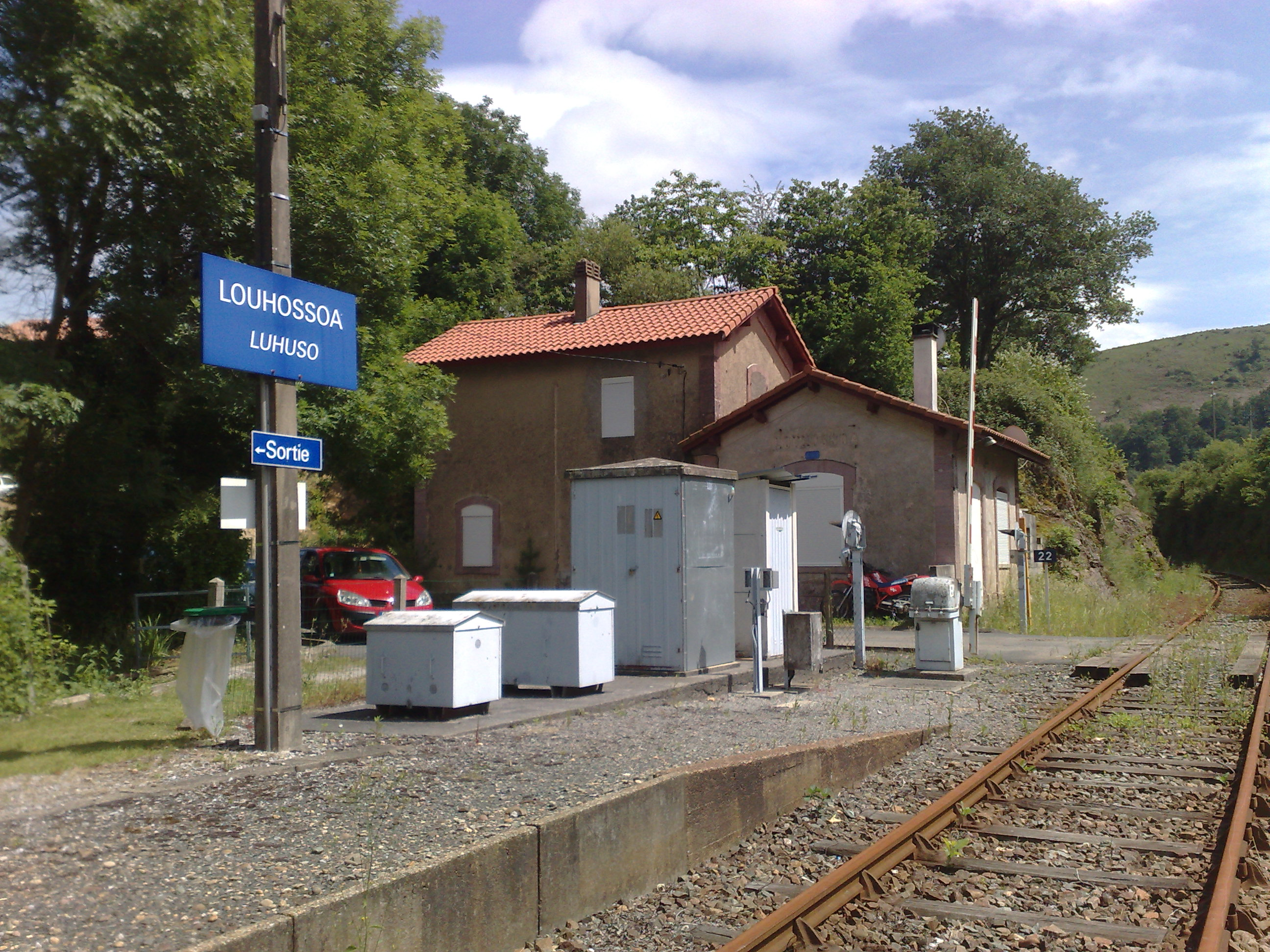 Luhuso-Louhossoa train station, Lapurdi-Labourd, Basque Country.